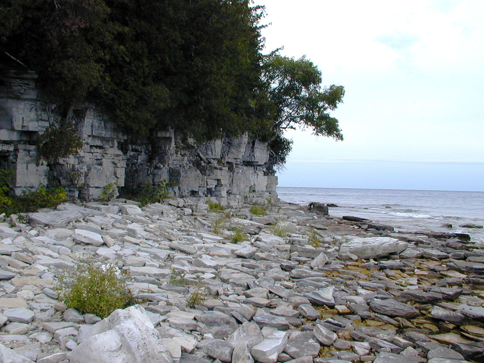 View NW; northernmost point of Door Bluff County Park, Door County, Wisconsin, USA (Also called Death's Door Bluff)